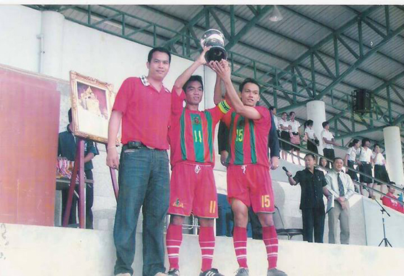 รางวัลชนะเลิศฟุตบอลชิงถ้วยพระราชทาน ประเภท ง. ในปี พ.ศ. 2548